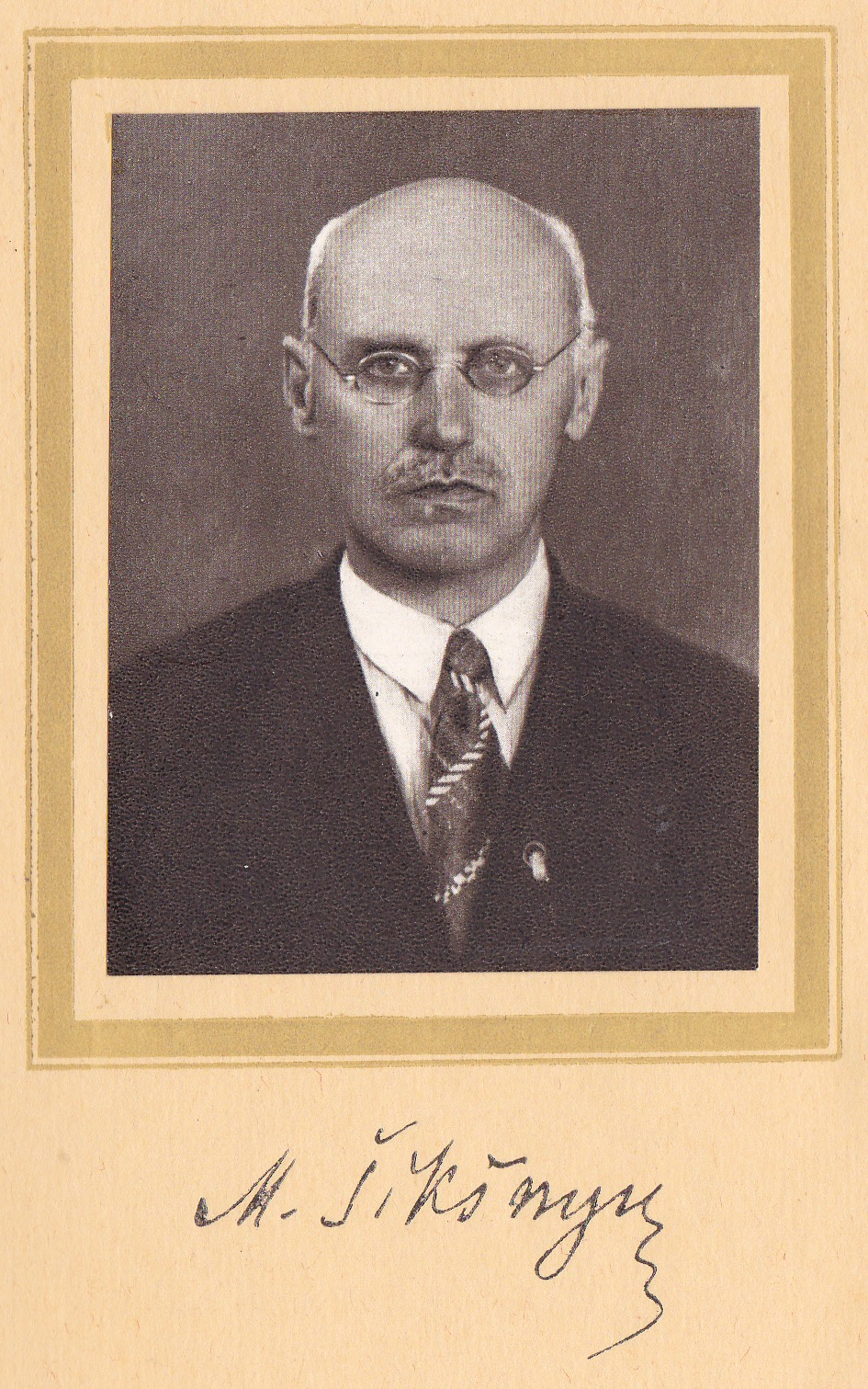 portrait of the Lithuanian dramaturg